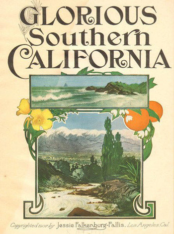 The cover for the 1907 sheet music "Glorious Southern California," composed by G.T. Fallis and N.L. Ridderhof.